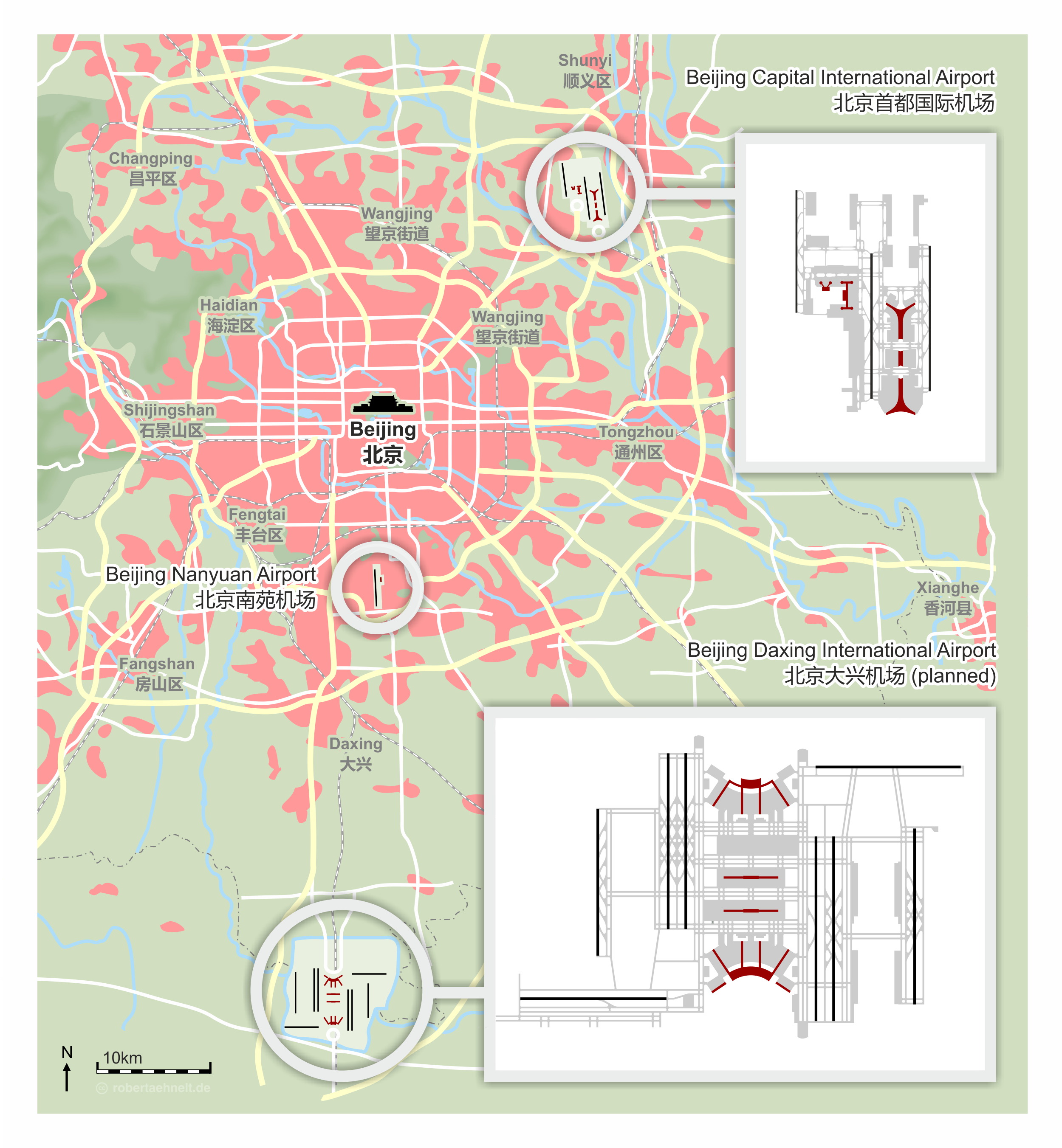 Beijing Capital International Airport with future planning of Beijing Daxing International Airport